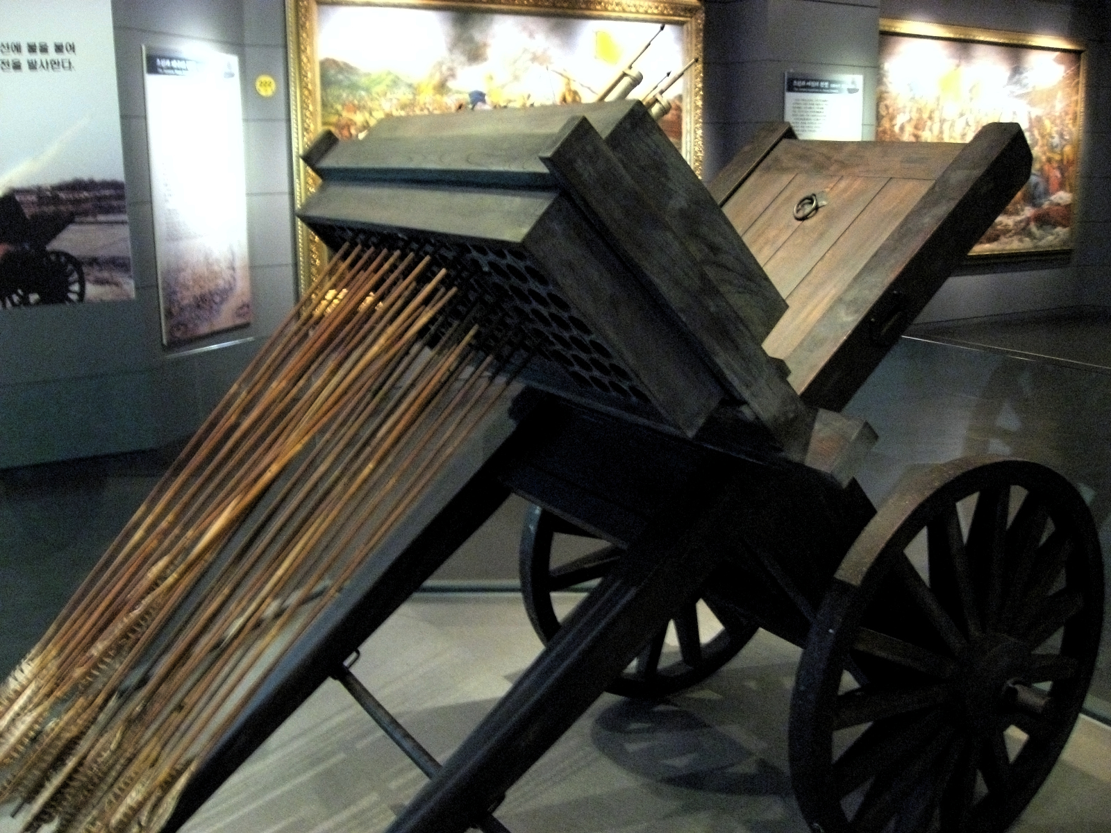 The back view of a Hwacha battery.